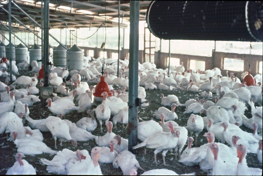 Gan-Shmuel - in the Turkeys coop 1971, Agriculture in Israel